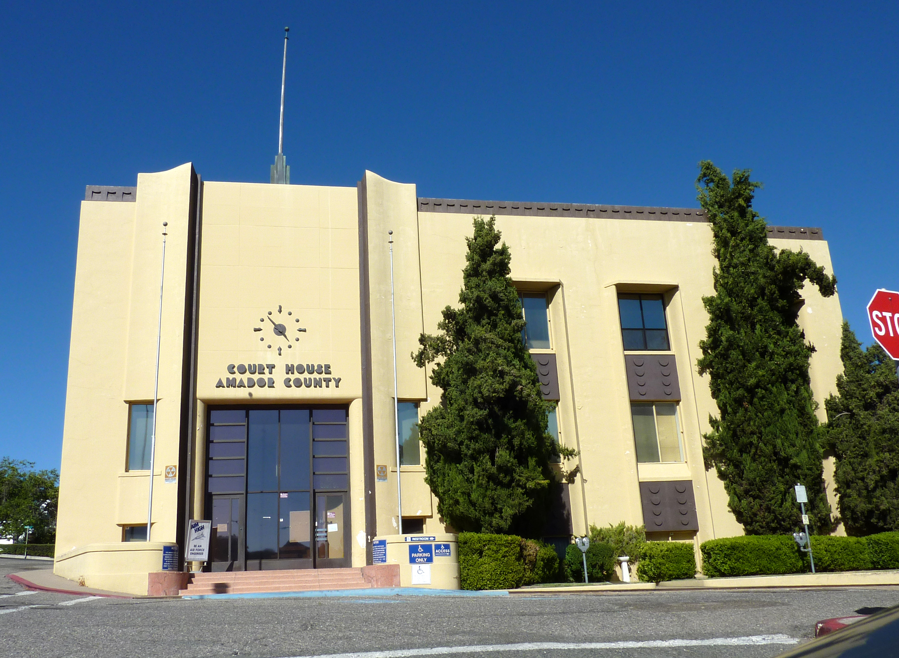 Amador County Court House, Jackson, California, USA.